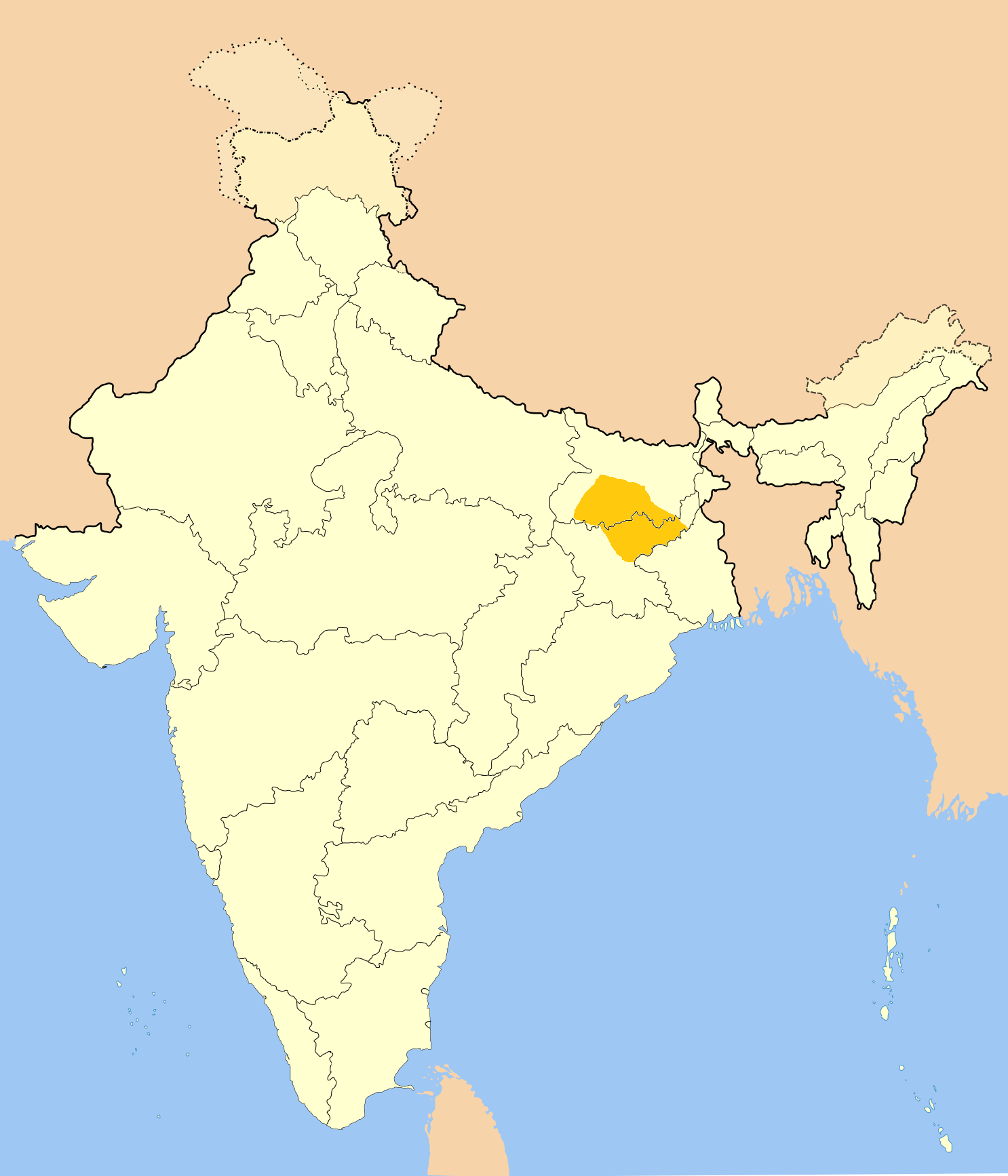 Map of Magahi speaking region